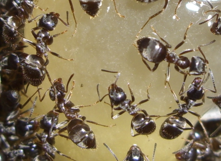 Lasius spec.